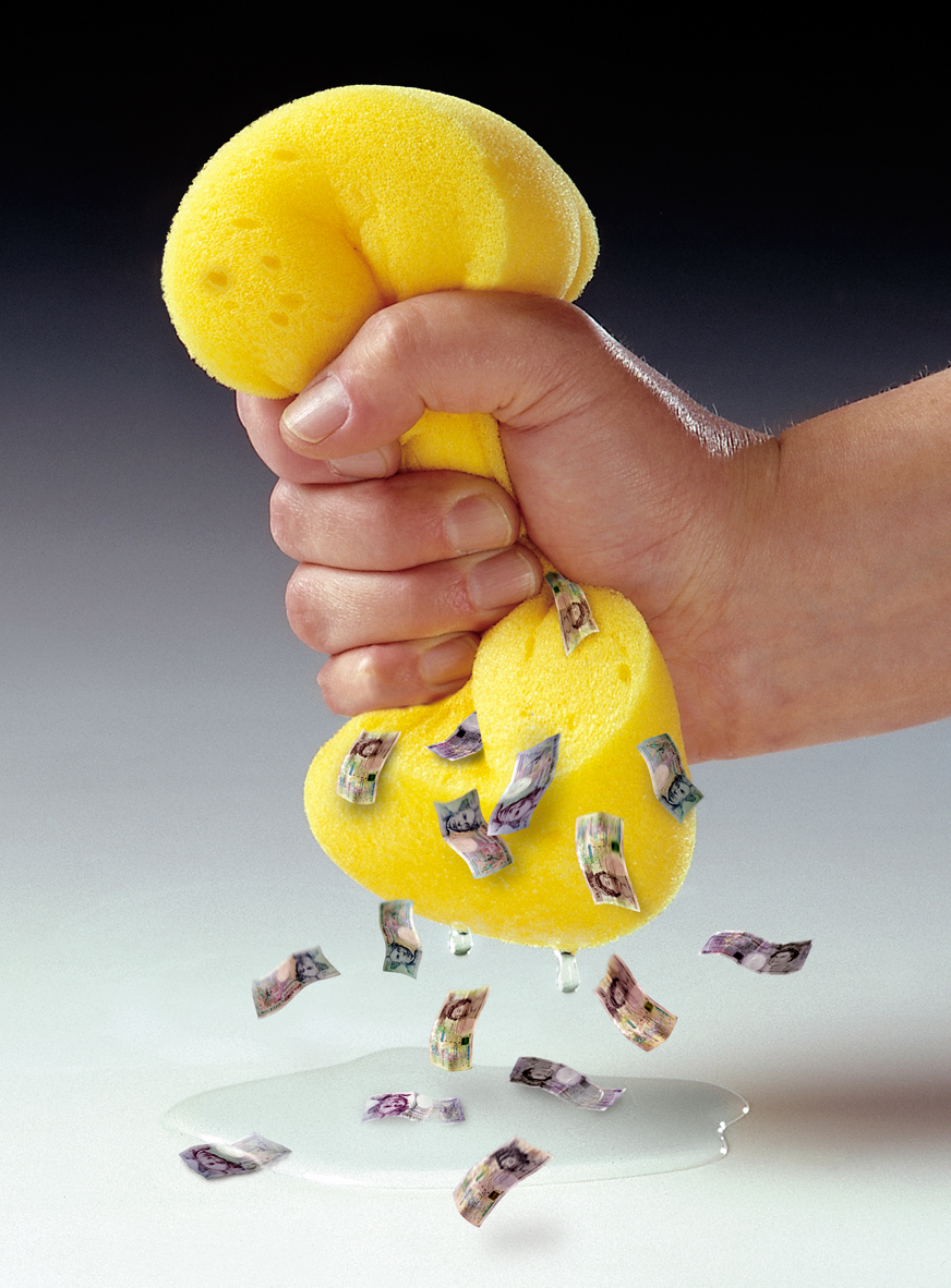 Photo of a hand squeezing a sponge, composited with images of water droplets and banknotes which have been digitally manipulated to appear to be squeezing out of the sponge. Composited from scanned 6x7 & 35mm transparencies and scanned banknotes, using Adobe Photoshop 3.0